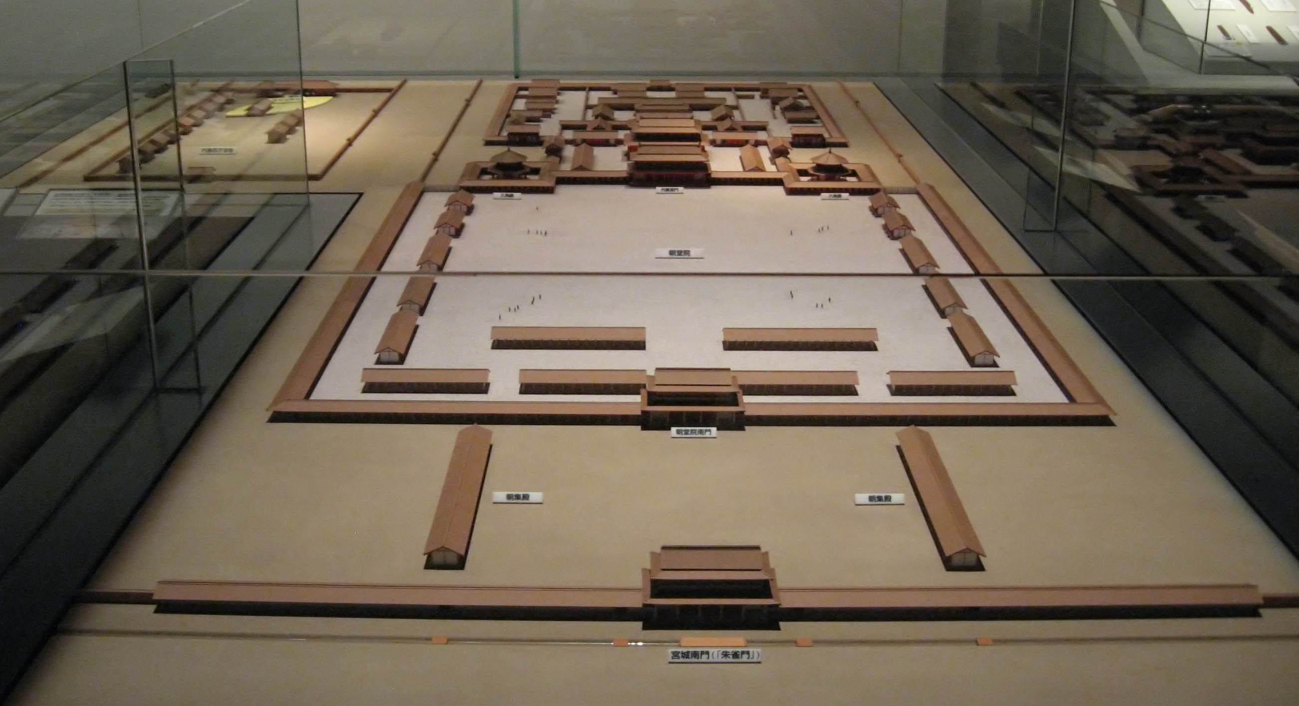 Scale model of preceding Naniwa palace